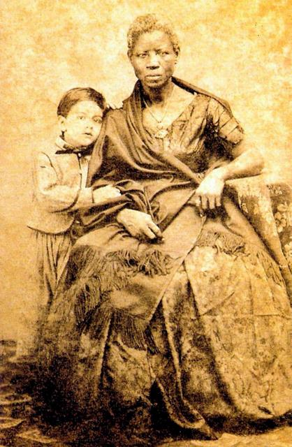 João Ferreira Villela Artur Gomes Leal with the maid Mônica.